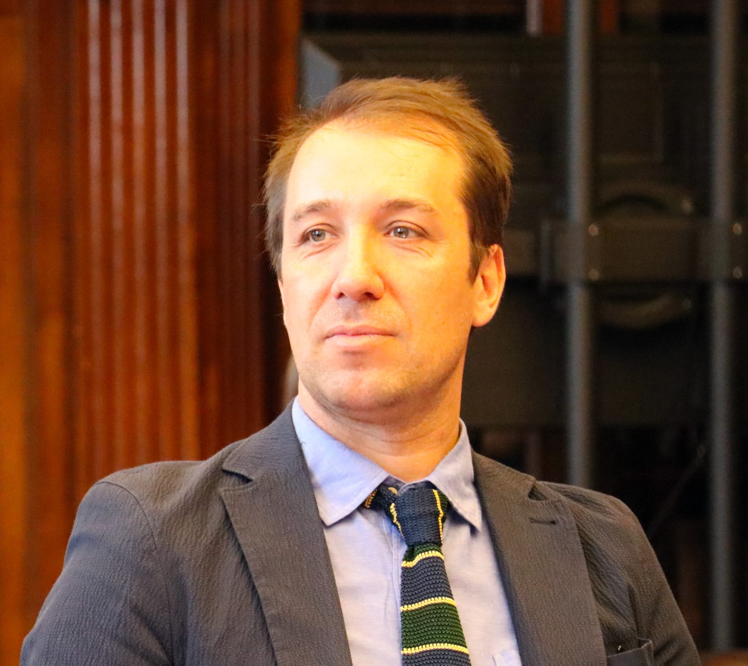 Carlos Maillet Aránguiz current Director National Service of Cultural Heritage.